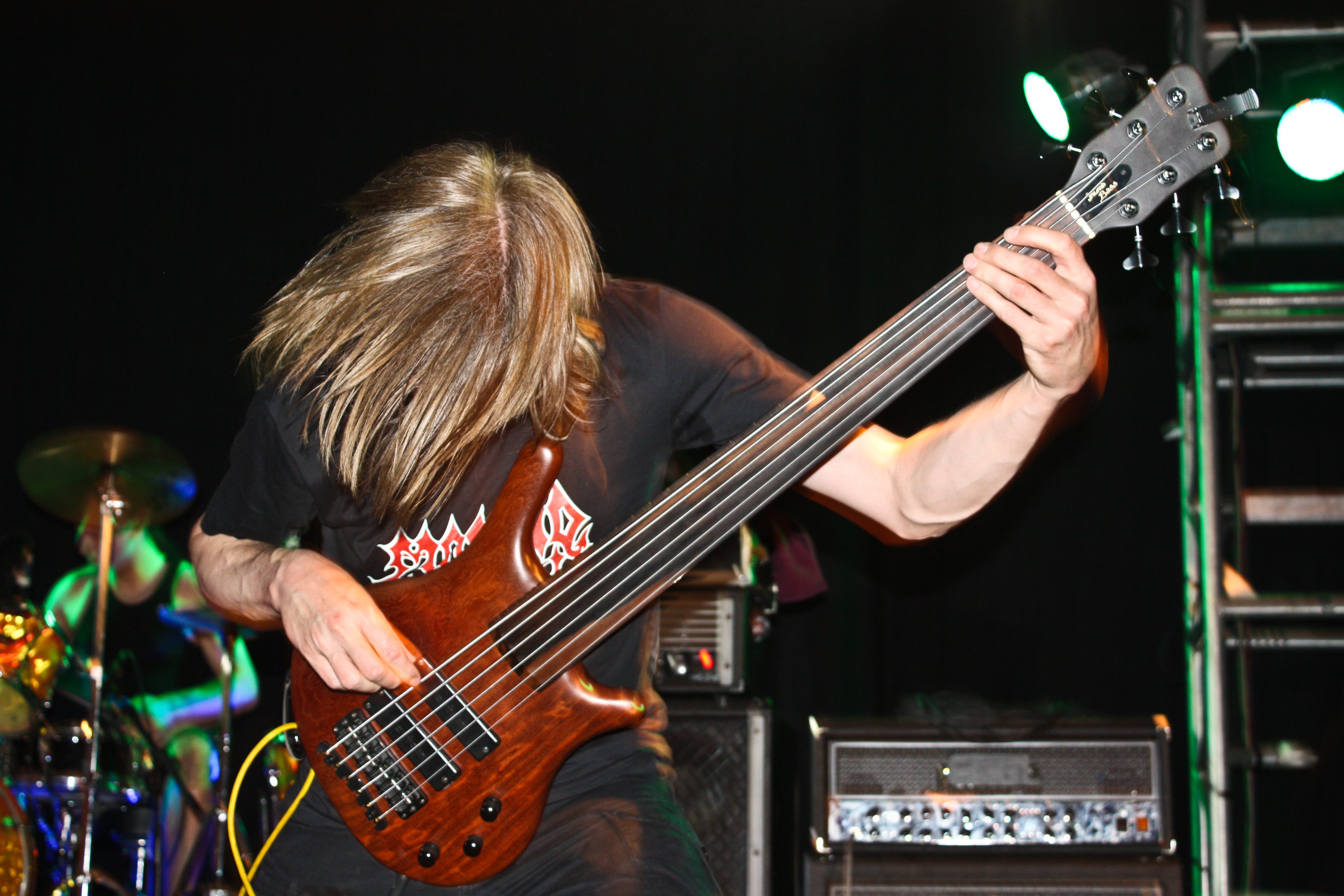 Jeroen Paul Thesseling of Pestilence